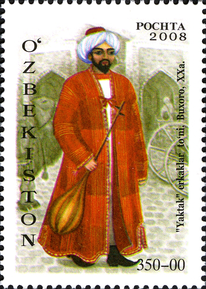 Stamps of Uzbekistan, 2008